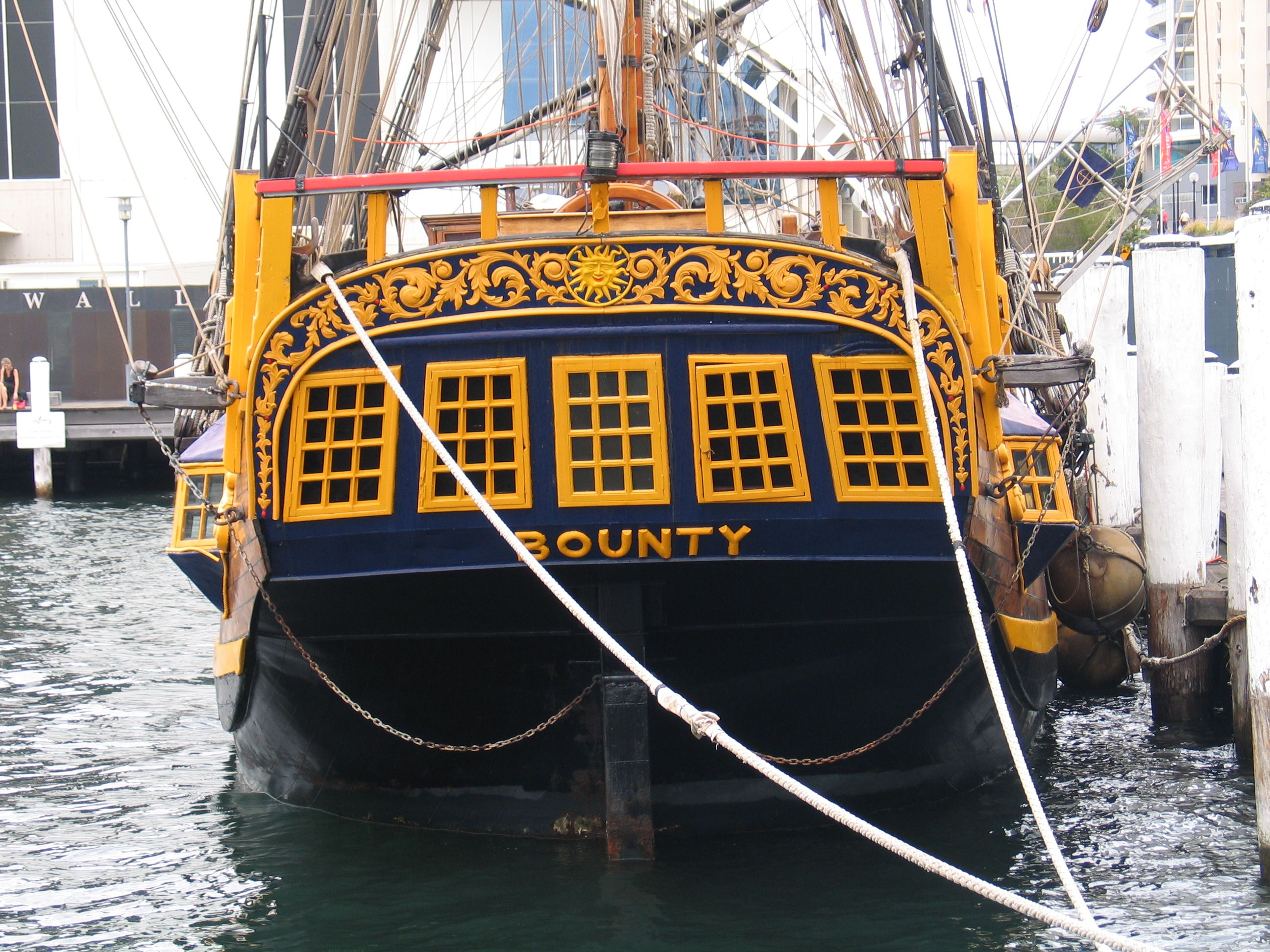 HMAV Bounty replica at the Australian National Mairitme Museum, Sydney, NSW, Australia.